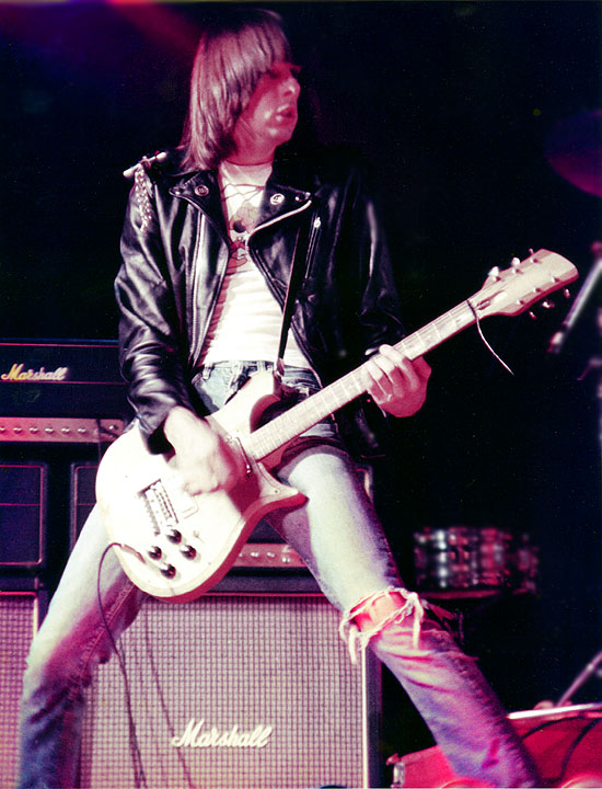 Johnny Ramone, 1977 at the El Mocambo, Toronto, Ontario, Canada, [foto by P.B.Toman].